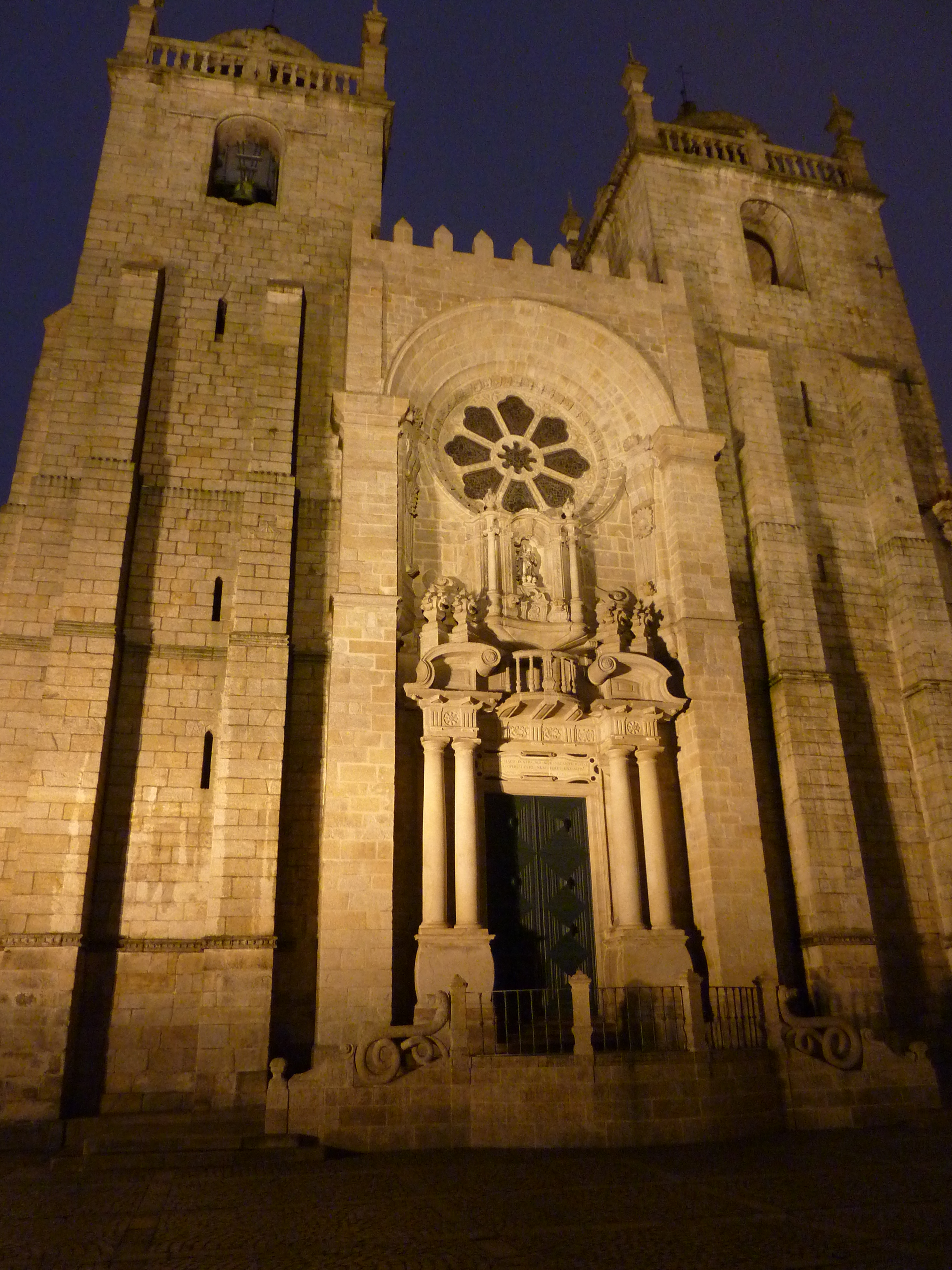 Façade of the Porto Cathedral (Sé do Porto)